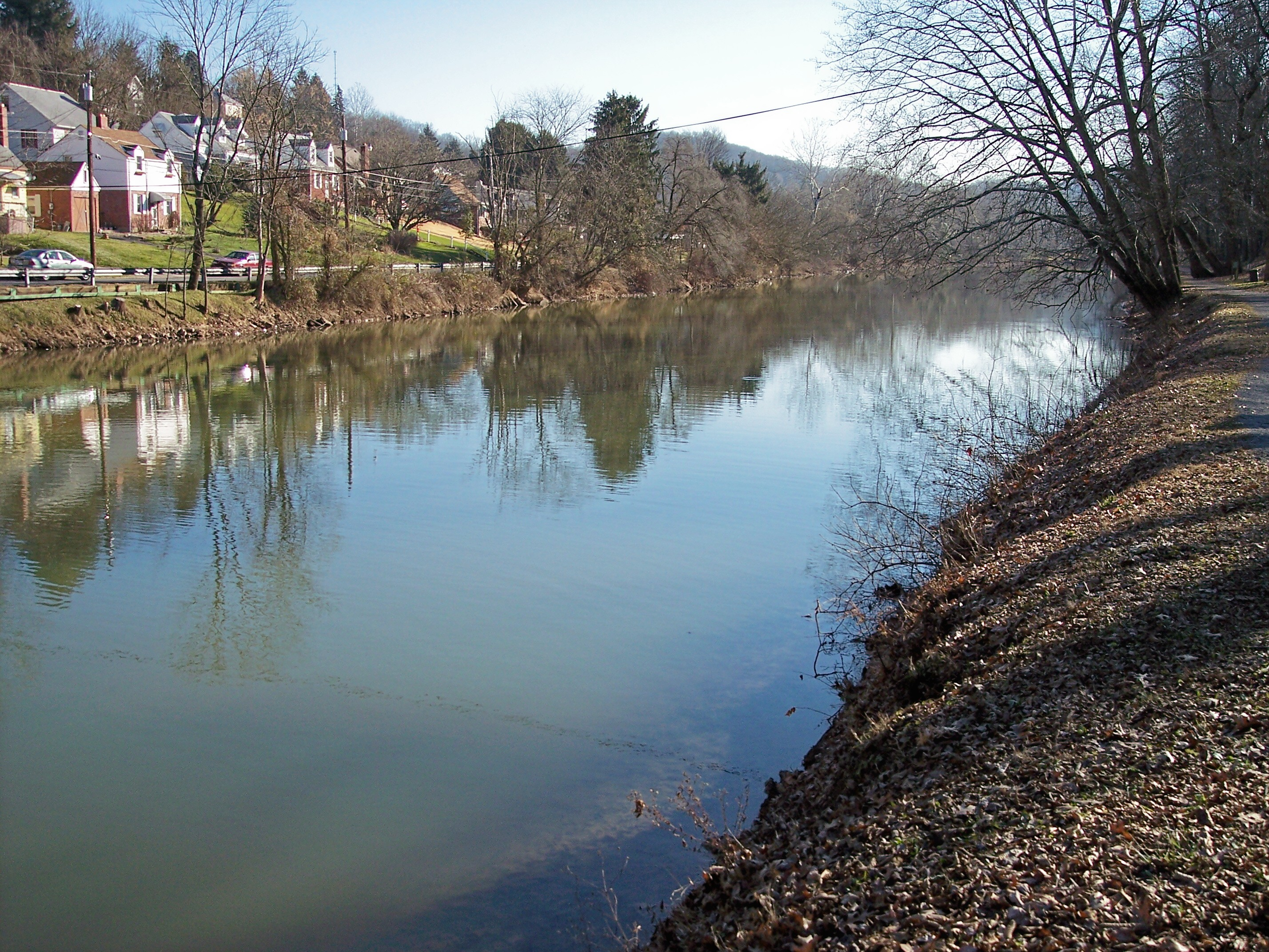 The West Fork River in River Bend City Park in Clarksburg, West Virginia